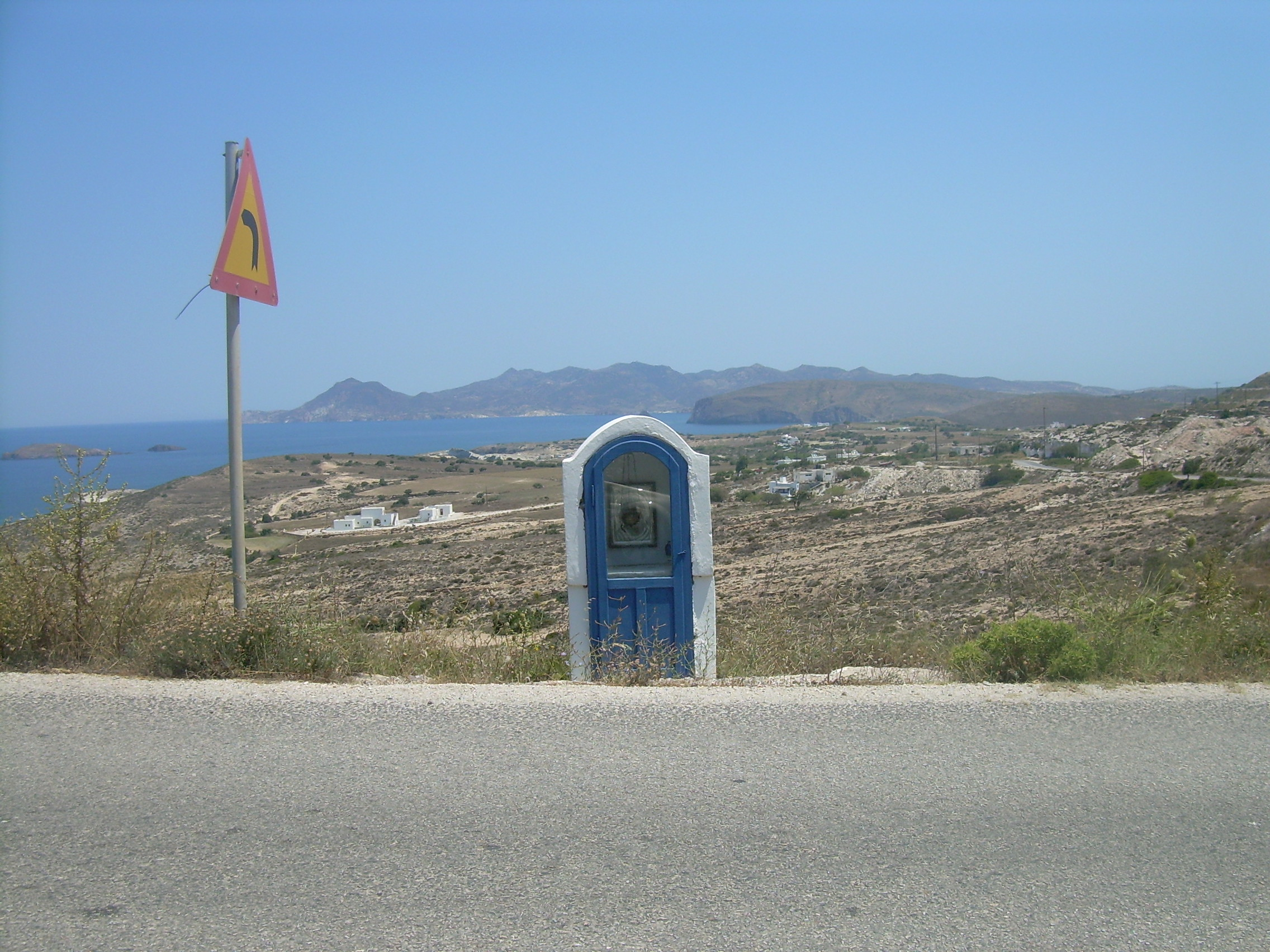 Little church at the side of the road, Greece